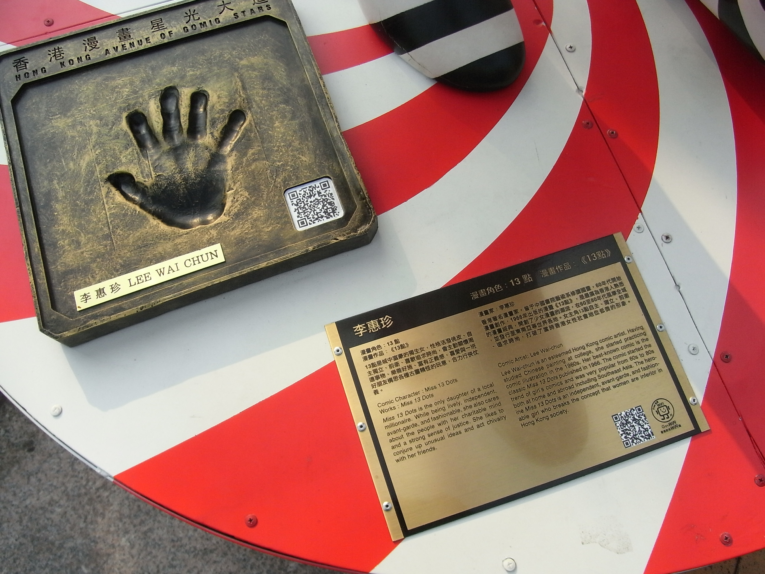 香港漫畫星光大道, Hong Kong Avenue of Comic Stars, Kowloon Park, Nathan Road, Tsim Sha Tsui, Hong Kong